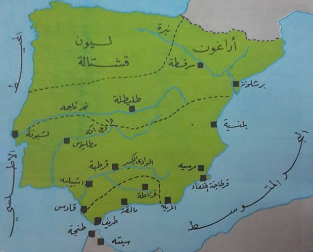 Map of the Iberian peninsula and Al-Andalus.